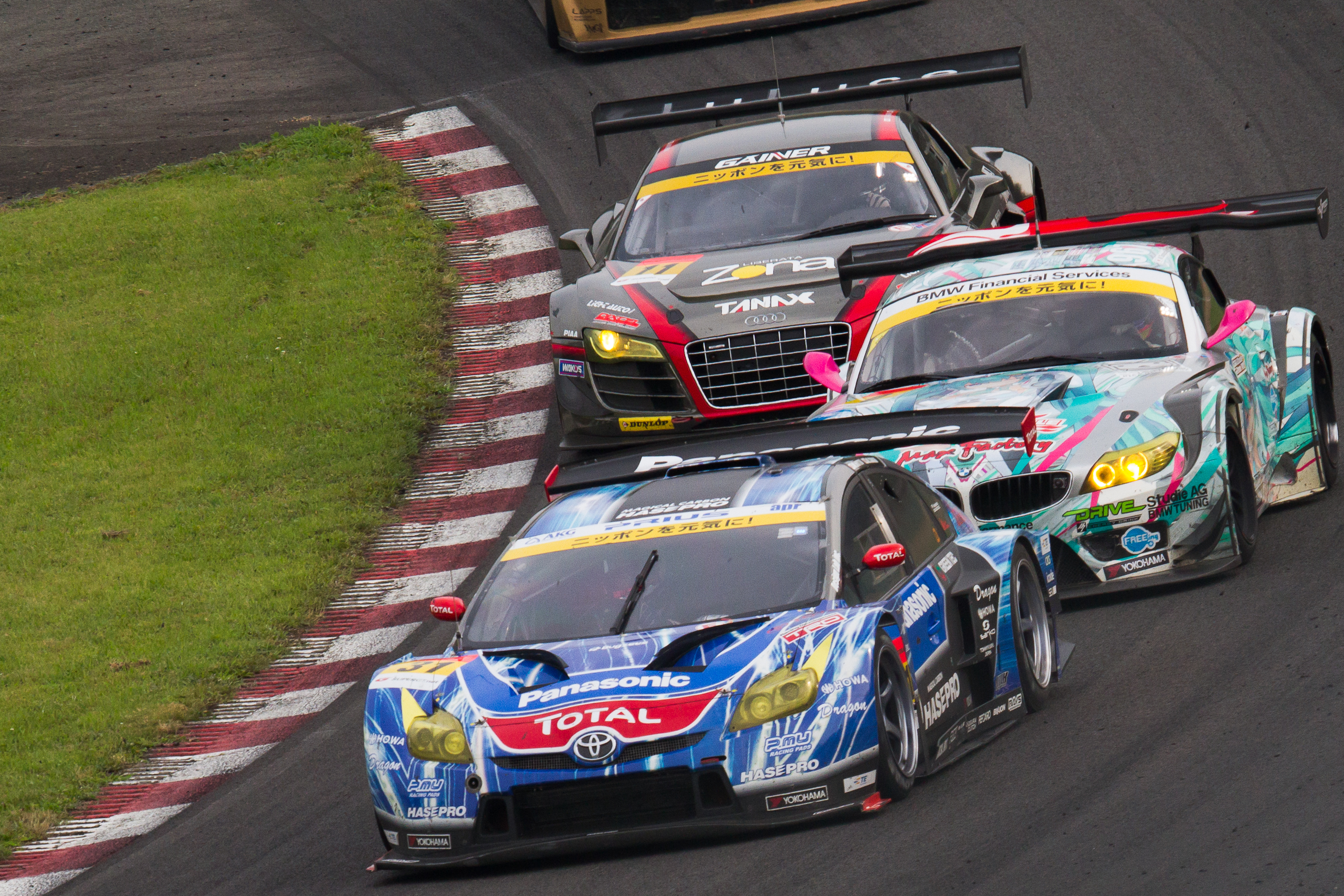 Super GT 2012 Rd.4 SUGO GT 300km: Group GT300 cars